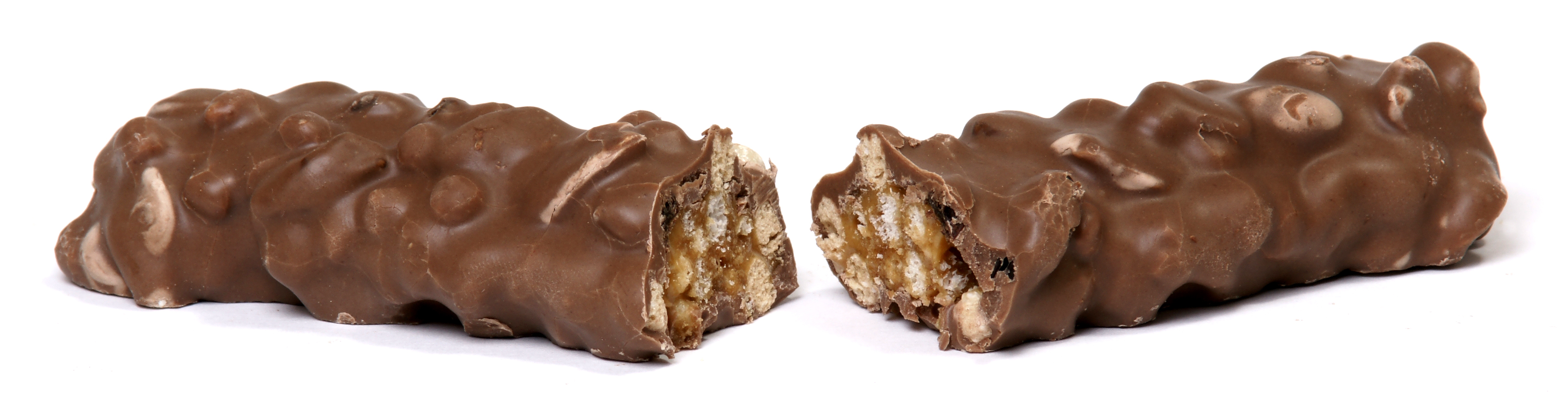 A Cadbury Picnic candy bar that has been split in half.